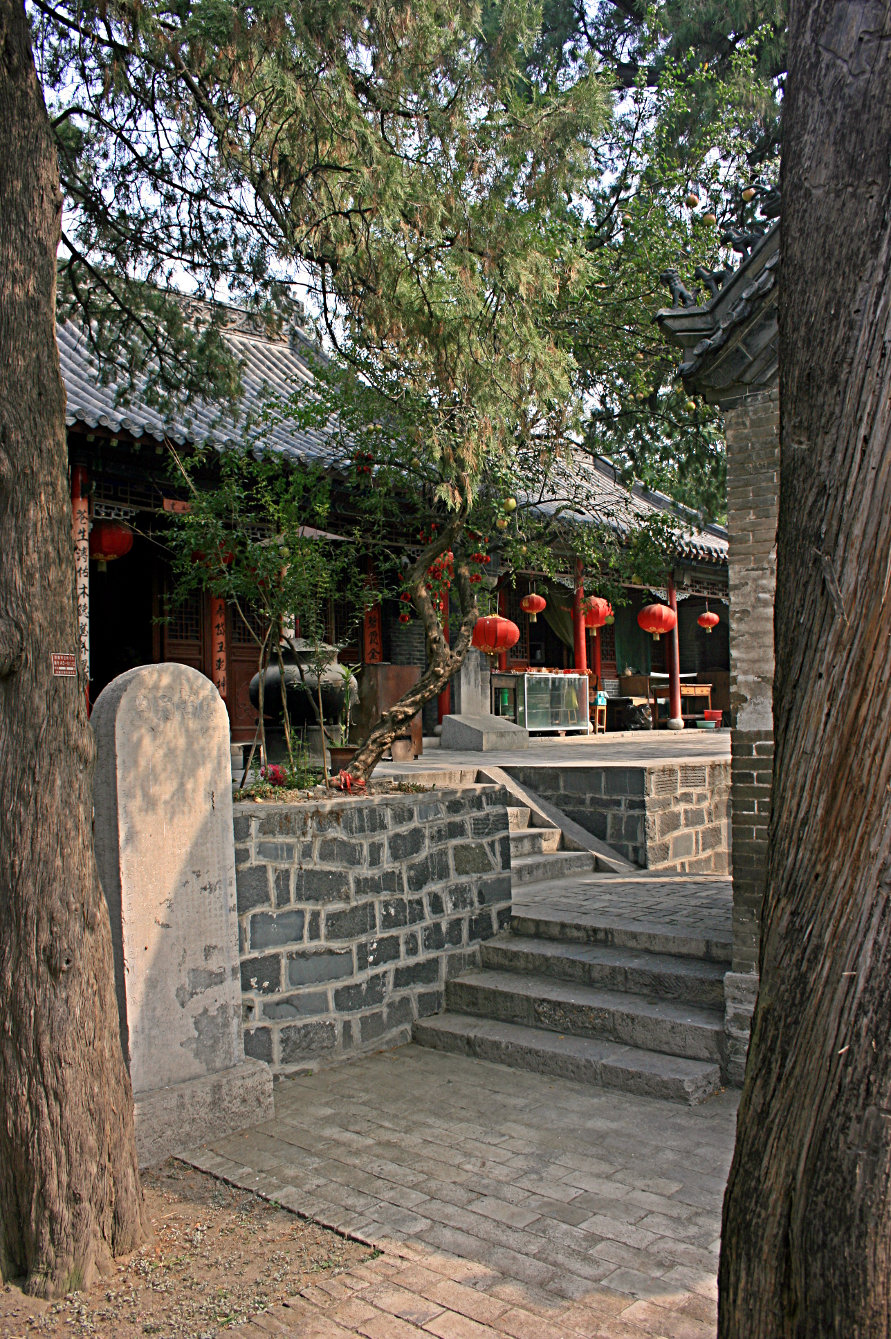 Photograph of a courtyard in the Huayang Palace at the foot of Hua Hill in Jinan, Shandong, China.